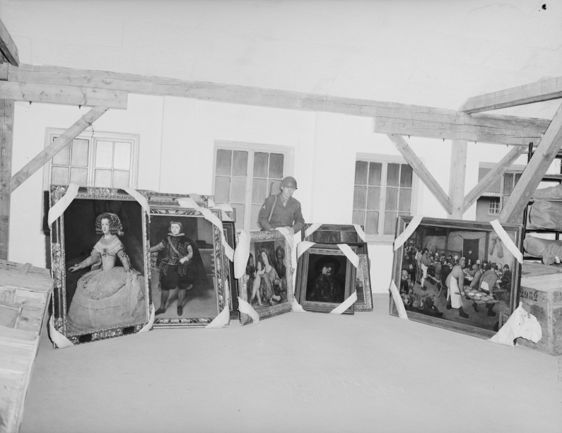 Various paintings in a storage room of Klesshiem Palace or Castle, including Pieter Bruegels' The Peasant Wedding. The person behind the paintings is a corporal of the US Forces.